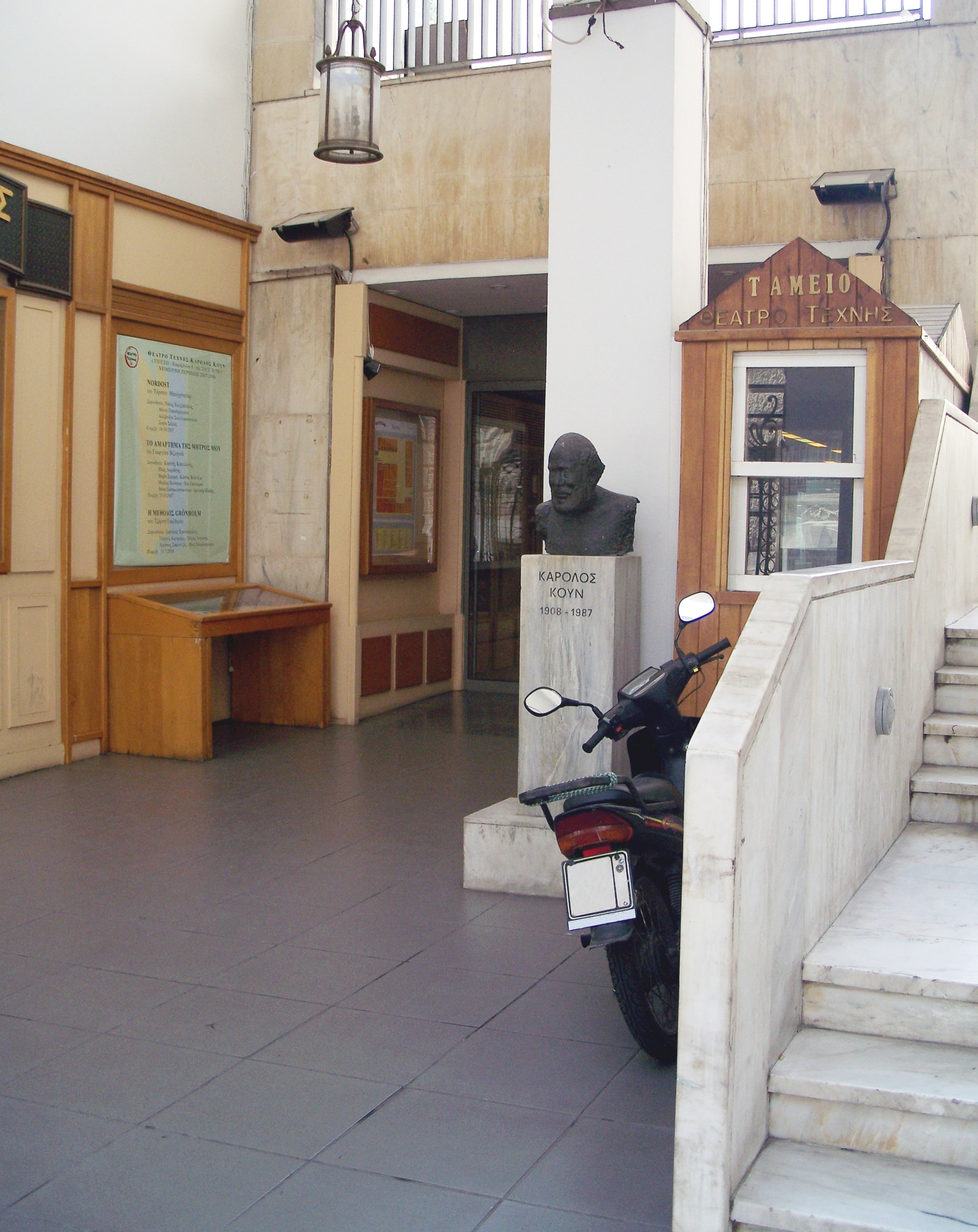 The entrance of the "Theatro Tehnis" (Theater of Art) in Athens, Greece, founded by important greek theater director Karolos Koun